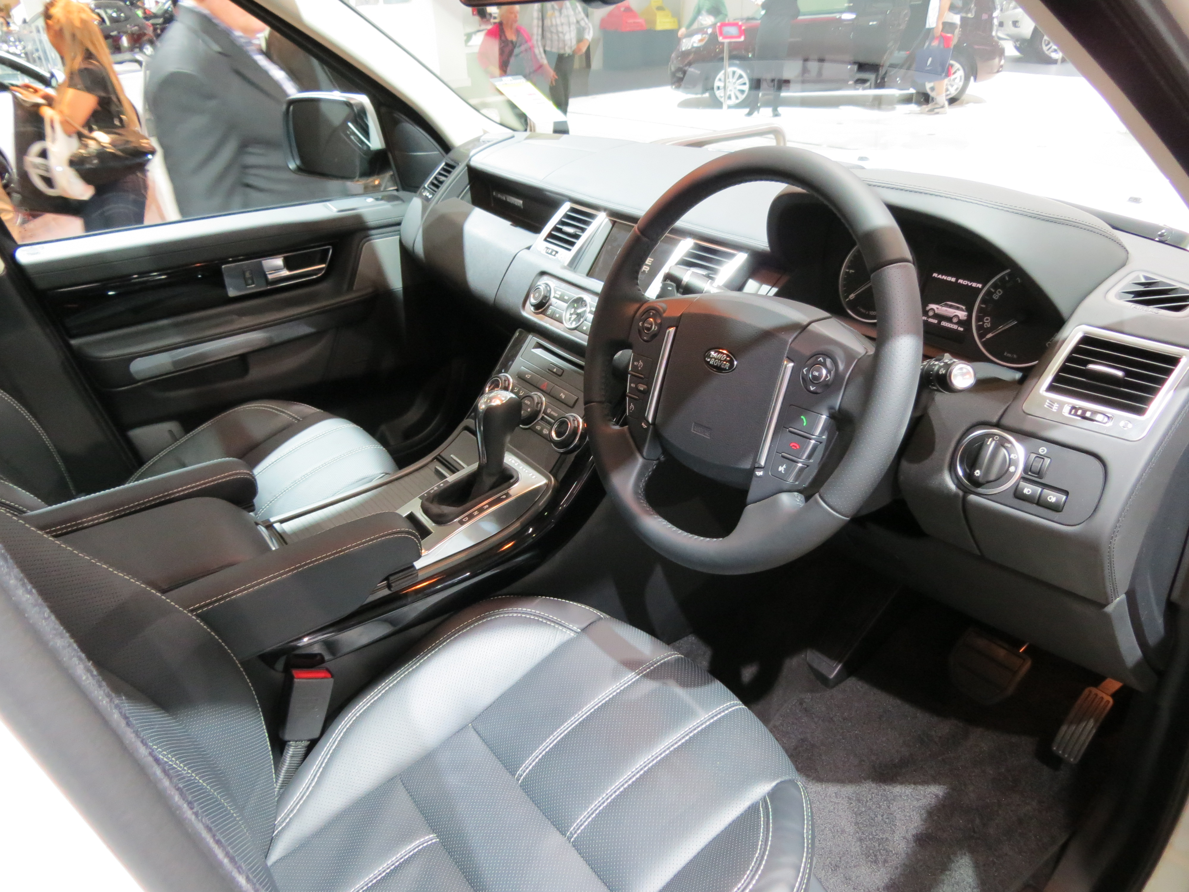 2012 Land Rover Range Rover Sport (L320 13MY) SDV6 HSE Luxury wagon. Photographed at the 2012 Australian International Motor Show, Sydney, New South Wales, Australia.